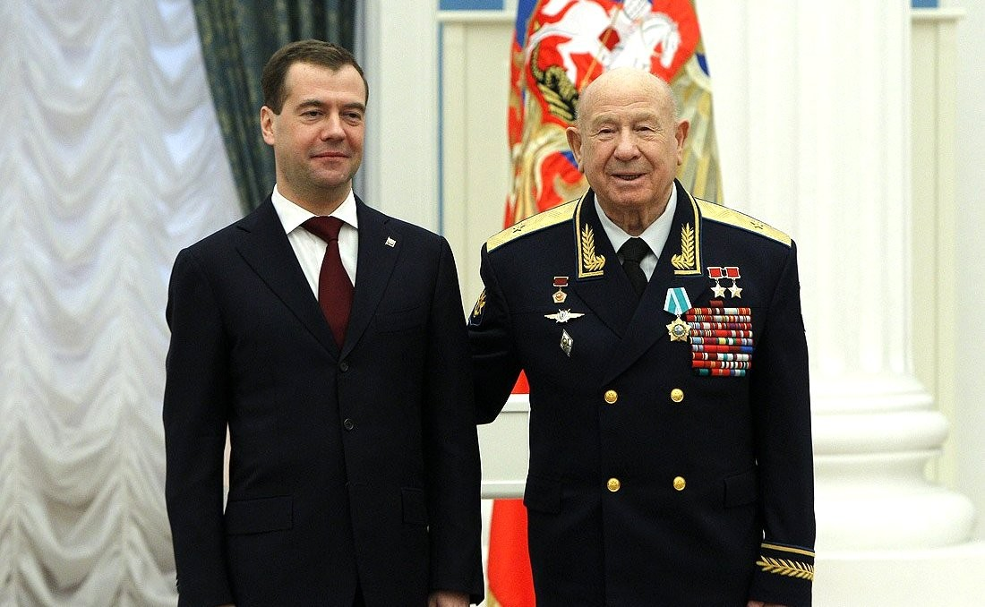 Member of the first squad of cosmonauts Alexei Leonov was awarded the Order of Friendship.